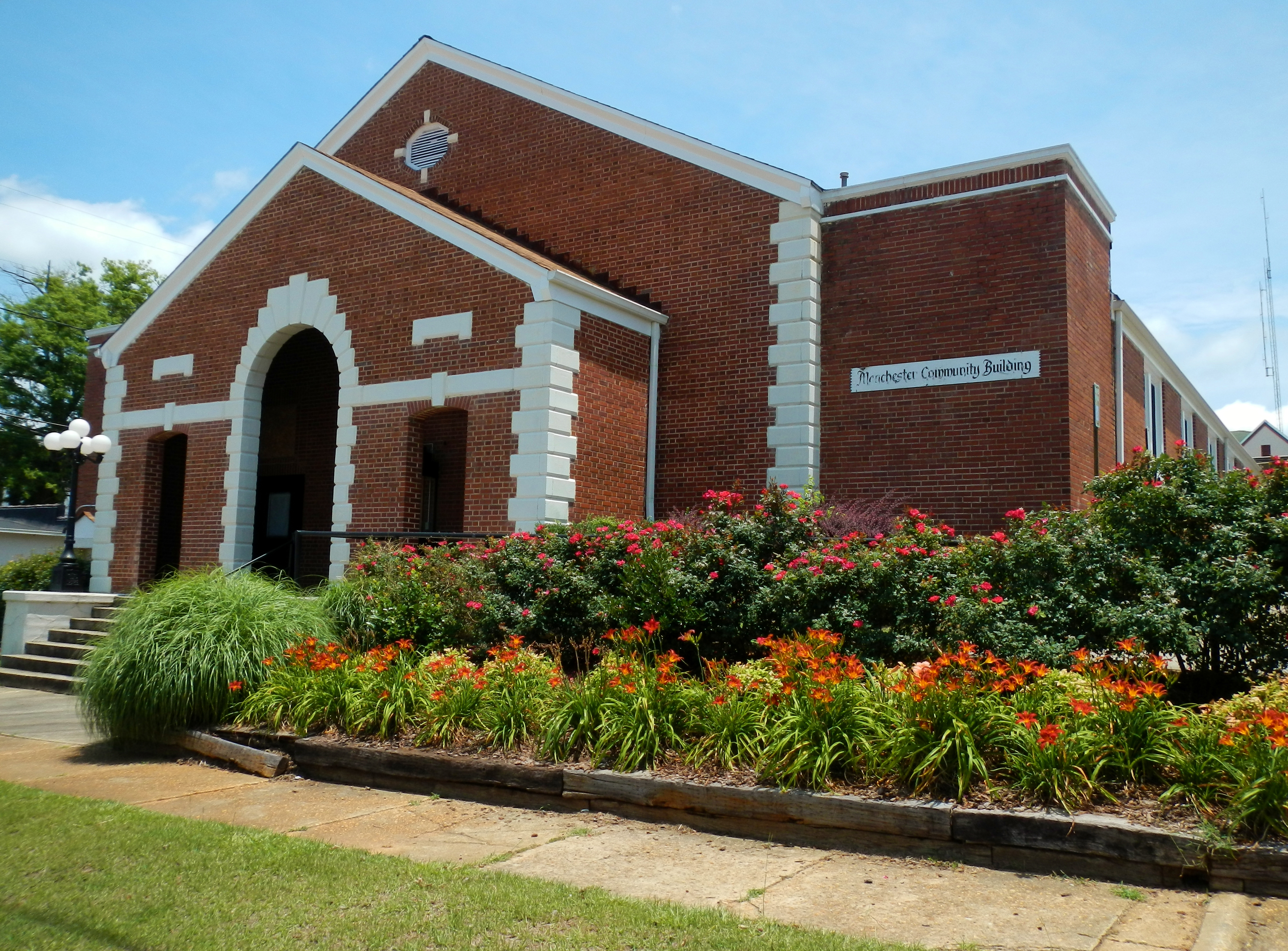 This is a photograph of Manchester Community Building in Manchester, GA. It was listed on the NRHP on January 28, 2002.